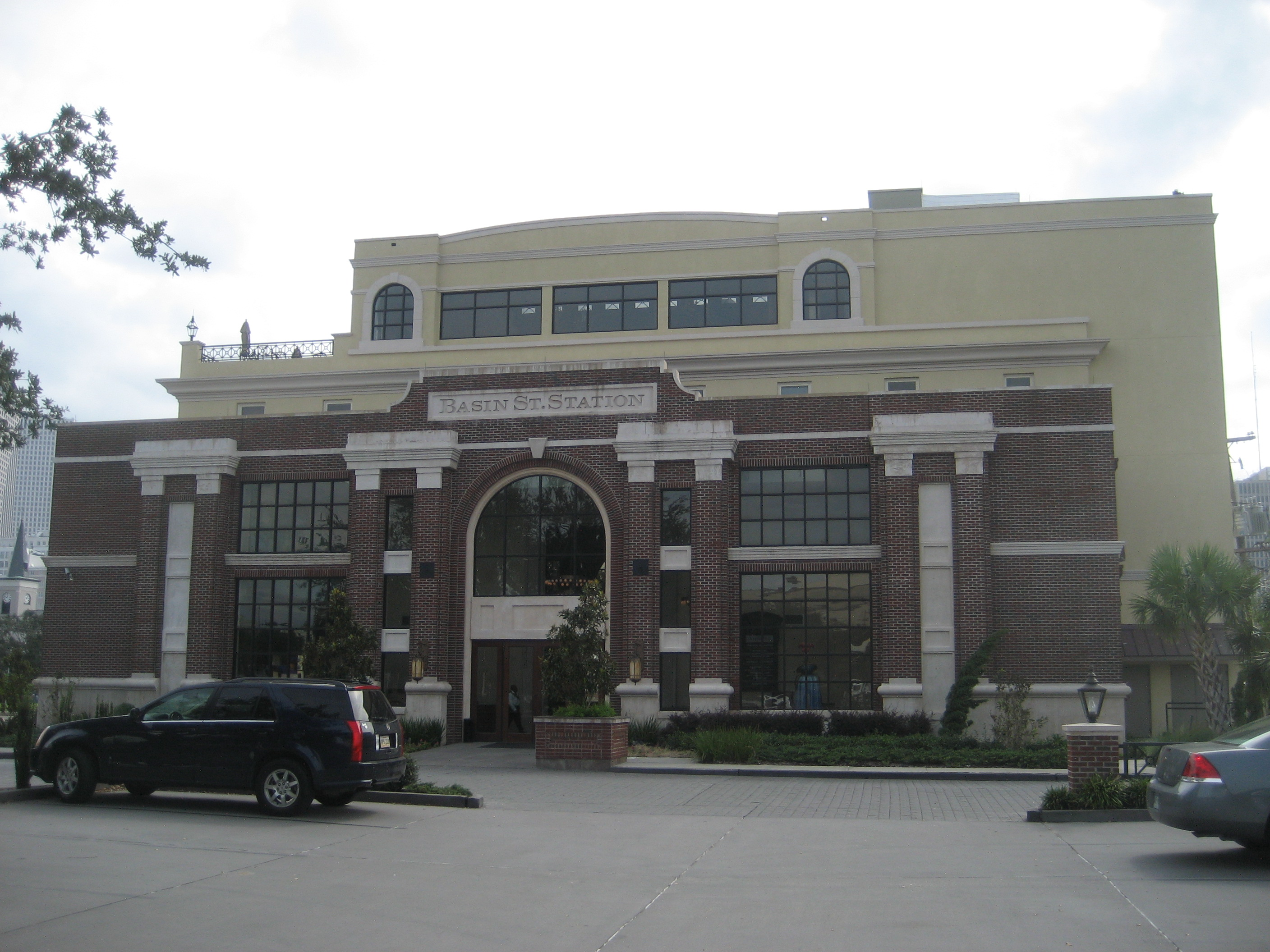 New Orleans: "Basin Street Station" building. Old Southern Railway freight terminal/office has been rennovated, now with visitor information center on ground floor and offices upstairs.